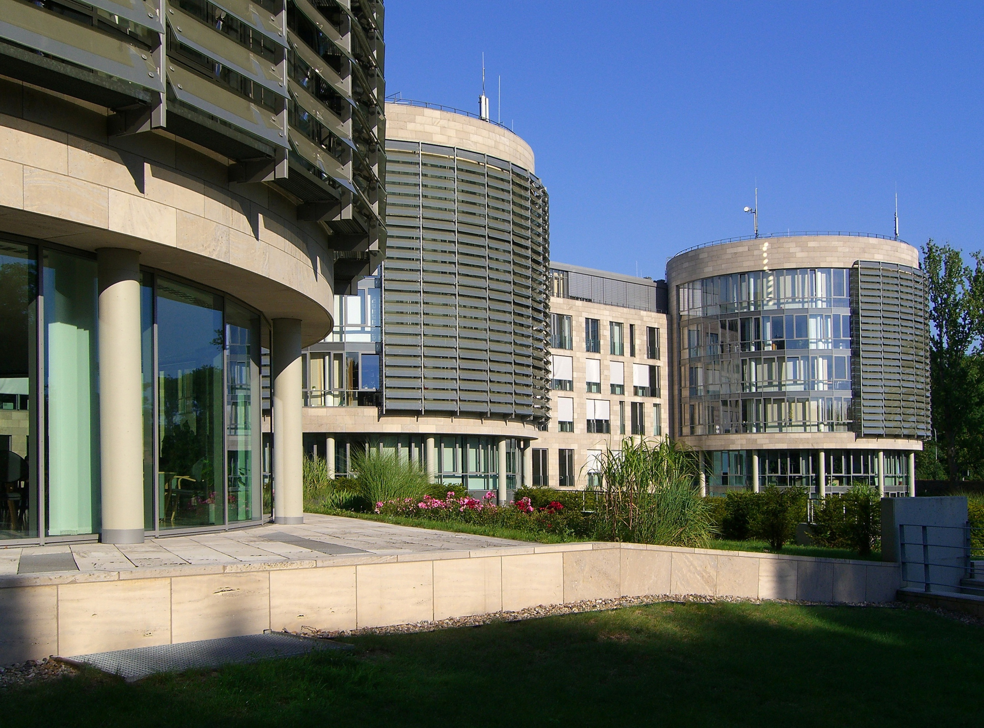 head office of E.ON Avacon (energy company) in Helmstedt